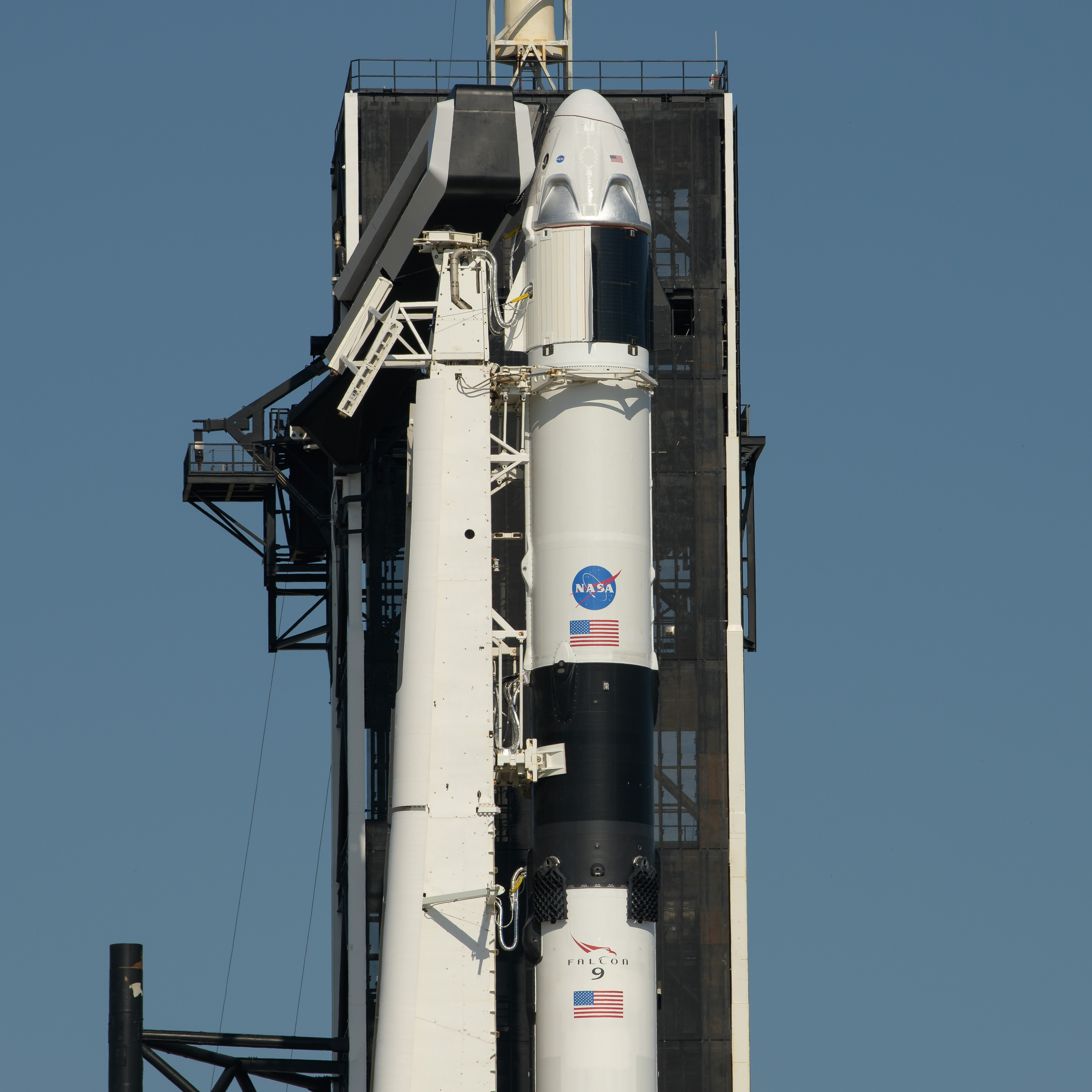 A SpaceX Falcon 9 rocket with the company's Crew Dragon spacecraft onboard is seen as it is raised into a vertical position on the launch pad at Launch Complex 39A as preparations continue for the Demo-2 mission, Thursday, May 21, 2020, at NASA’s Kennedy Space Center in Florida. NASA’s SpaceX Demo-2 mission is the first launch with astronauts of the SpaceX Crew Dragon spacecraft and Falcon 9 rocket to the International Space Station as part of the agency’s Commercial Crew Program. The flight test will serve as an end-to-end demonstration of SpaceX’s crew transportation system. Behnken and Hurley are scheduled to launch at 4:33 p.m. EDT on Wednesday, May 27, from Launch Complex 39A at the Kennedy Space Center. A new era of human spaceflight is set to begin as American astronauts once again launch on an American rocket from American soil to low-Earth orbit for the first time since the conclusion of the Space Shuttle Program in 2011. Photo Credit: (NASA/Bill Ingalls)